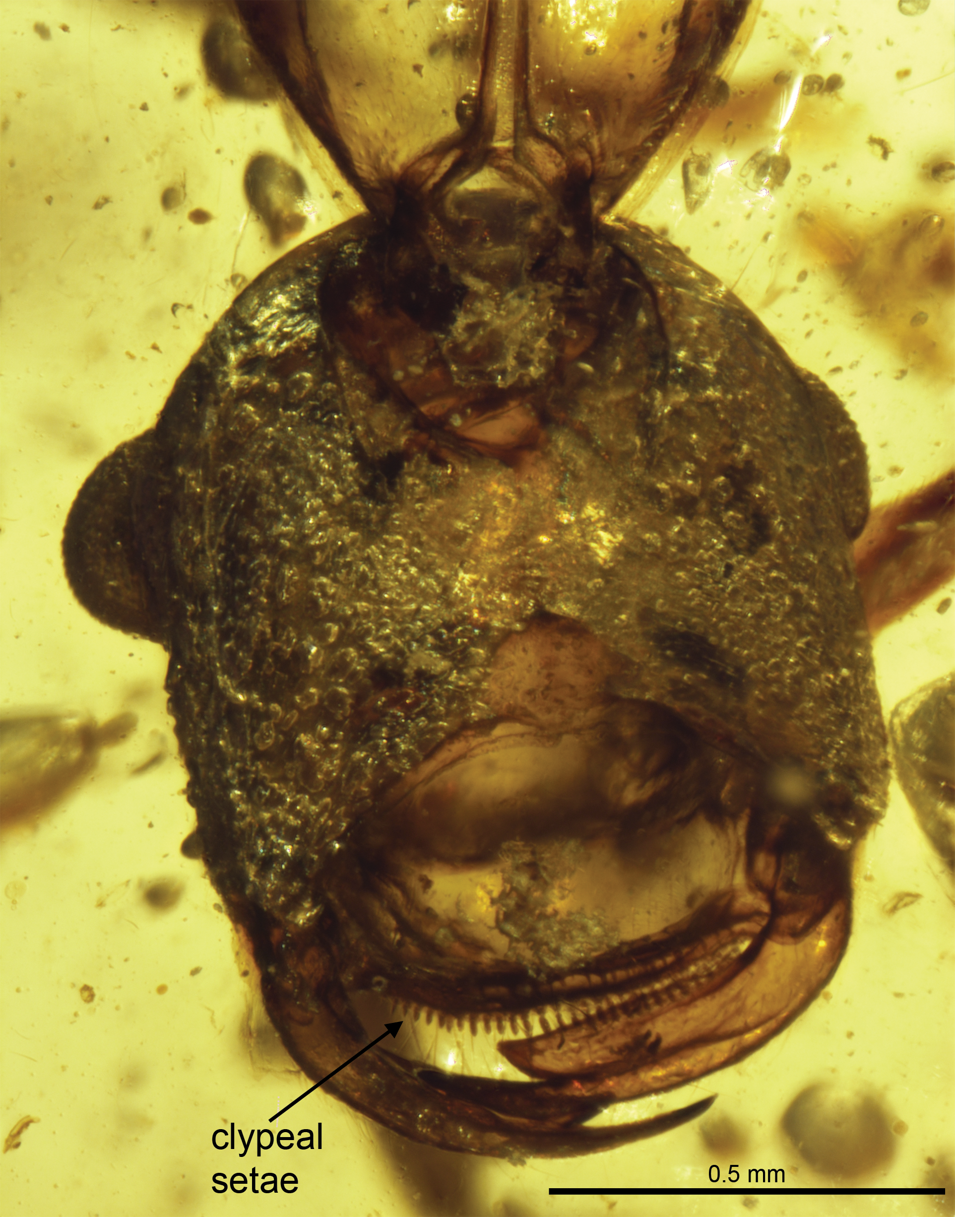 Figure 12. Gerontoformica spiralis (syn Sphecomyrmodes spiralis paratype JZC Bu301 photomicrograph. Ventral view of head. Paratype is partially disarticulated, however provides a clear view of anterior clypeus margin.